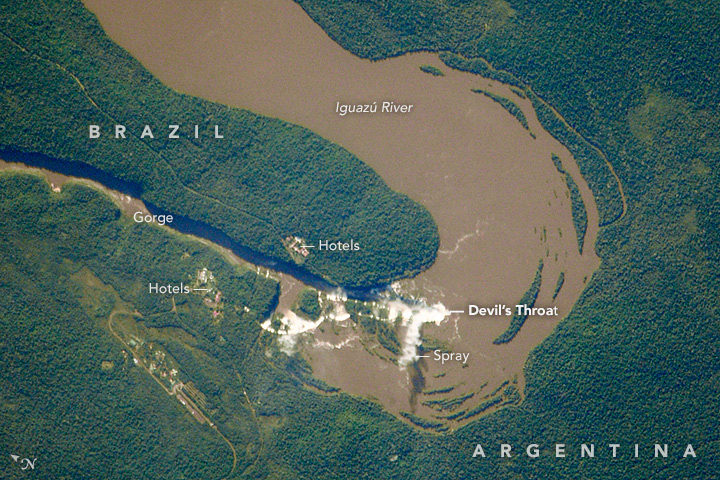 A crew member aboard the International Space Station pushed the camera system to the limit to focus on the famous Iguazú Falls. The falls are the second most popular tourist attraction in South America (after Machu Picchu), drawing more than one million visitors. The wide Iguazú River makes a sharp bend before plunging over the falls, which appear as the brightest white patches in the image. The falls are 60 to 90 meters high (200 to 260 feet), stretching 2.7 kilometers (1.7 miles) but interrupted by numerous islands and, in places, by one or two steps.